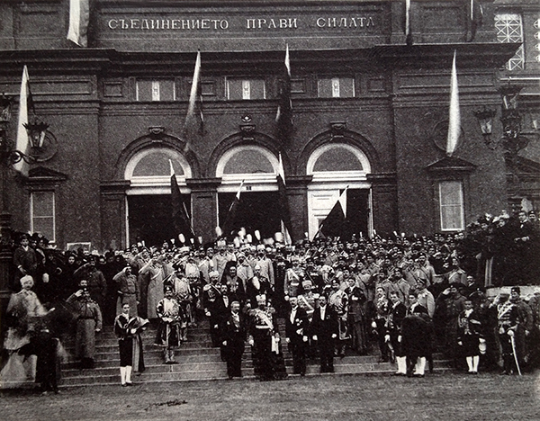 The National Assembly of Bulgaria during a celebration in 1901.